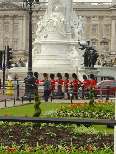 Changing of the guard at Buckingham Palace.